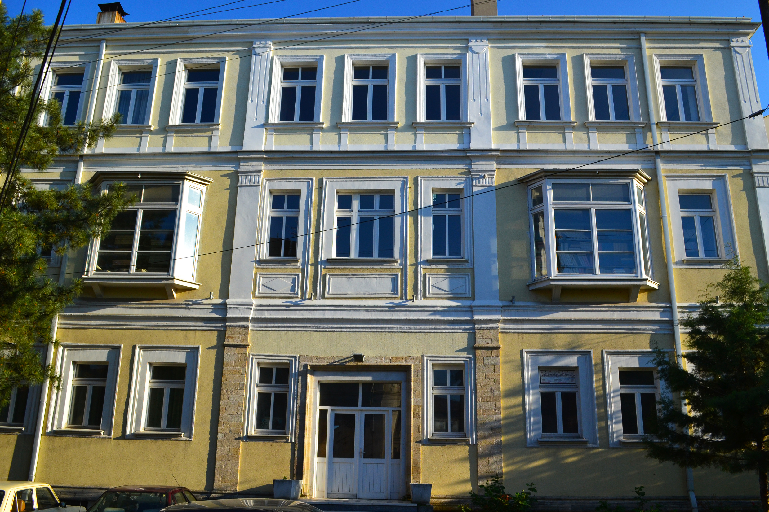 Bitola, Macedonia